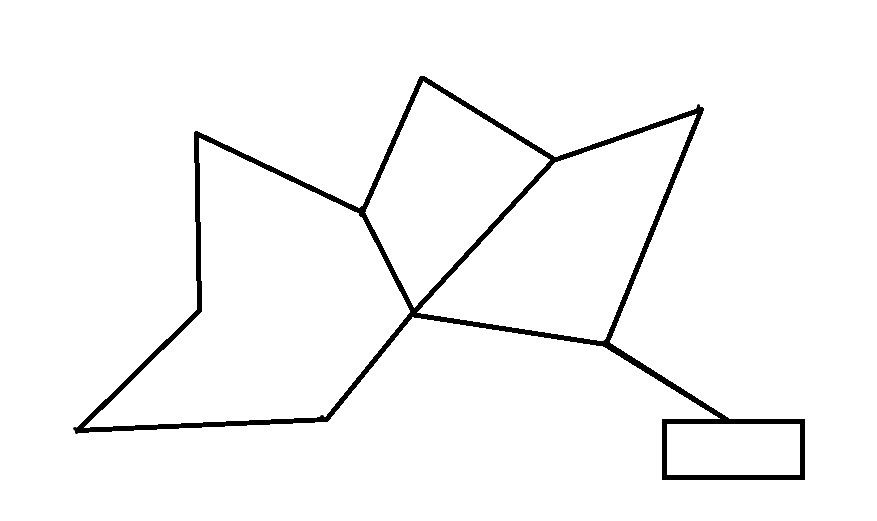 A schematic sketch of a distribution network for water